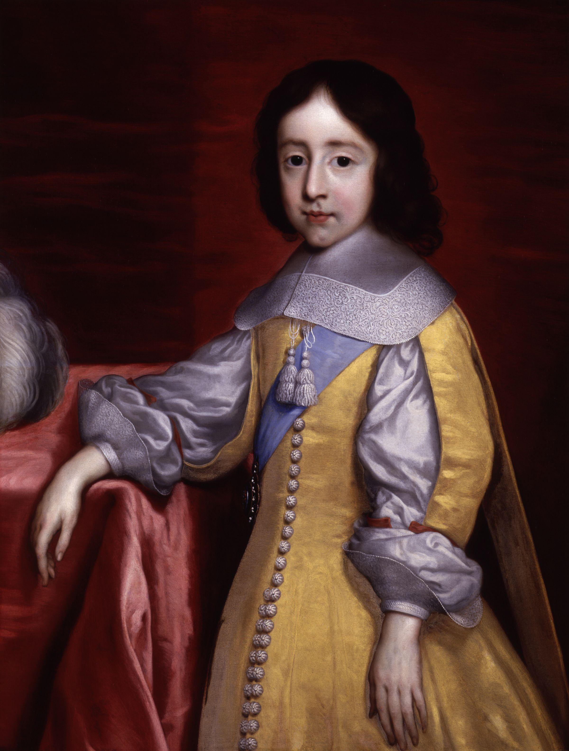 All images in this batch have been confirmed as author died before 1939 according to the official death date listed by the NPG.